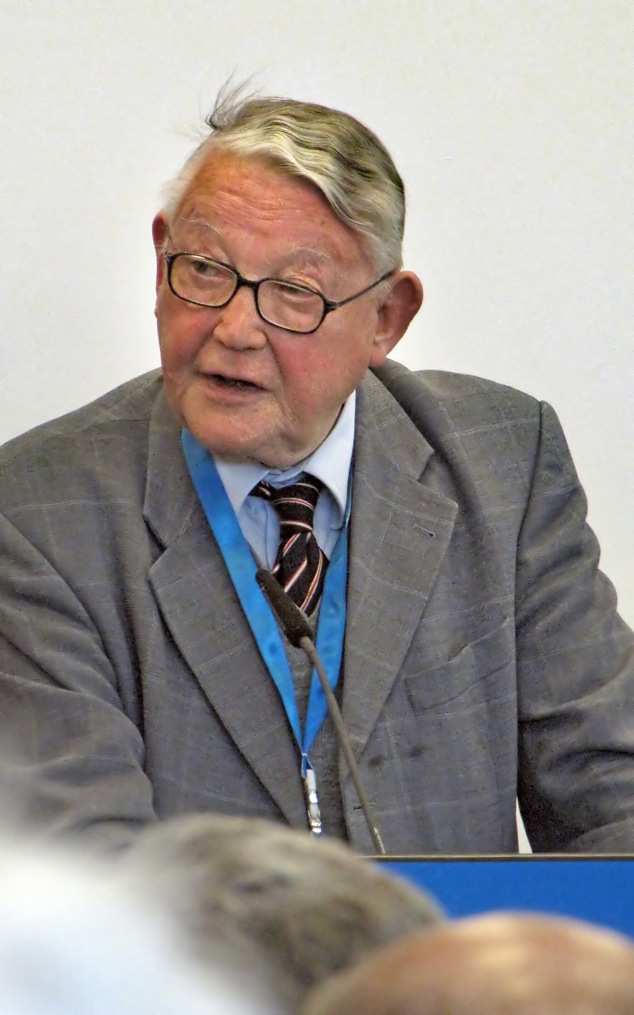 Kirchentag Hamburg 2013: Rudolf von Thadden